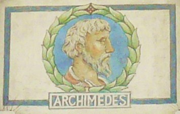 Archimedes in Poznan City Hall.